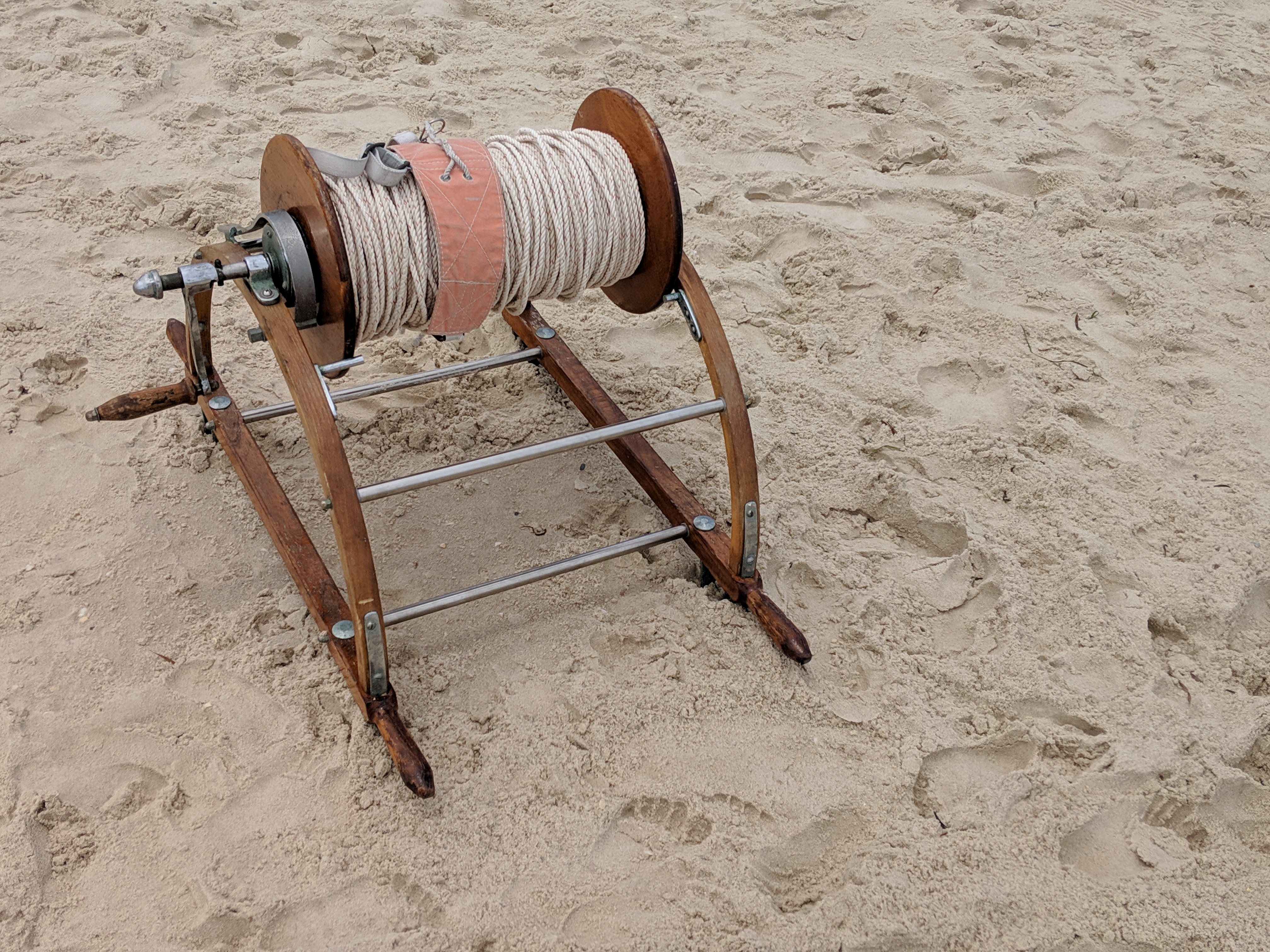 Australian life saving reel on the Grange beach in South Australia